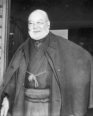 Japanese Prime Minister Korekiyo Takahashi (1854–1936, in office 1921–22)